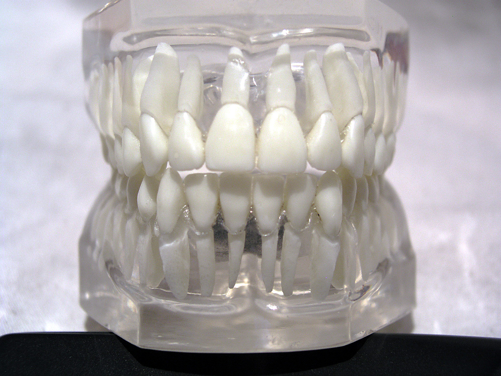 Demonstration model of teeth. The photo was taken the 23rd December 2005 by Håkan Svensson (Xauxa).